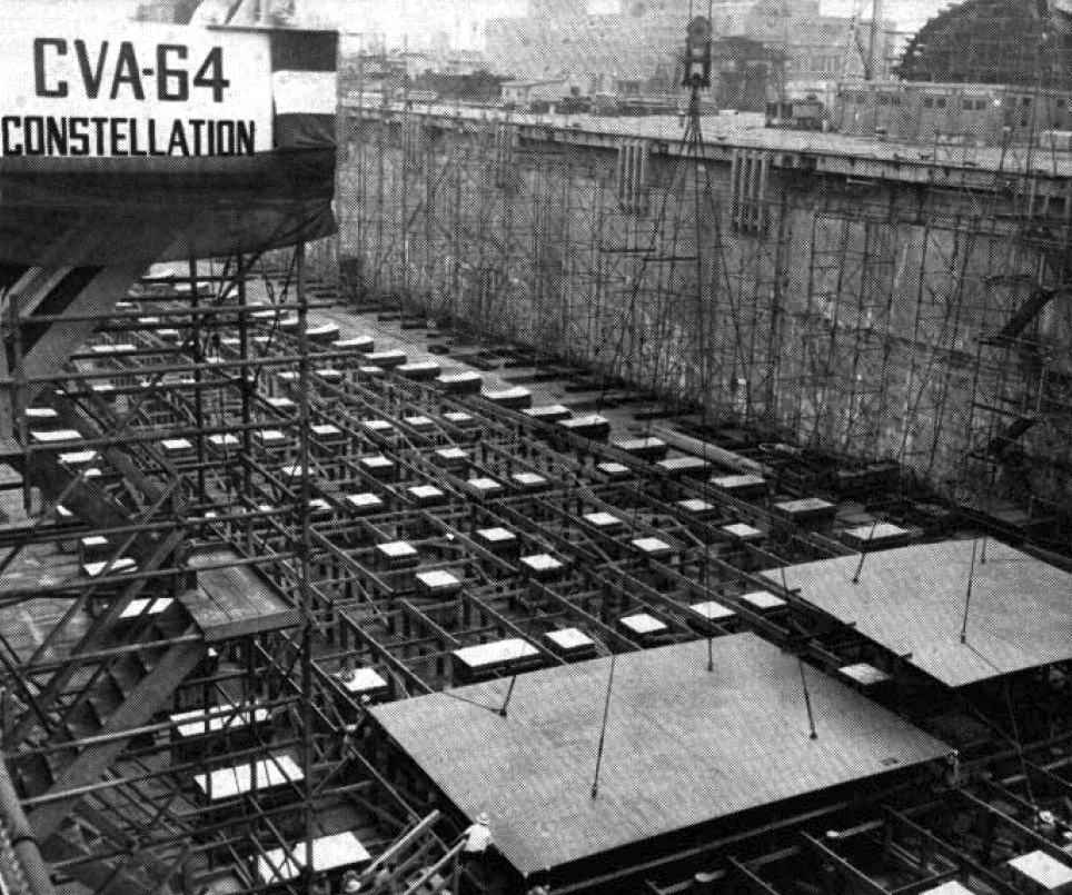 U.S. Navy New York Naval Shipyard workers las the keel plates for the aircraft carrier USS Constellation (CVA-64) on 14 September 1957.